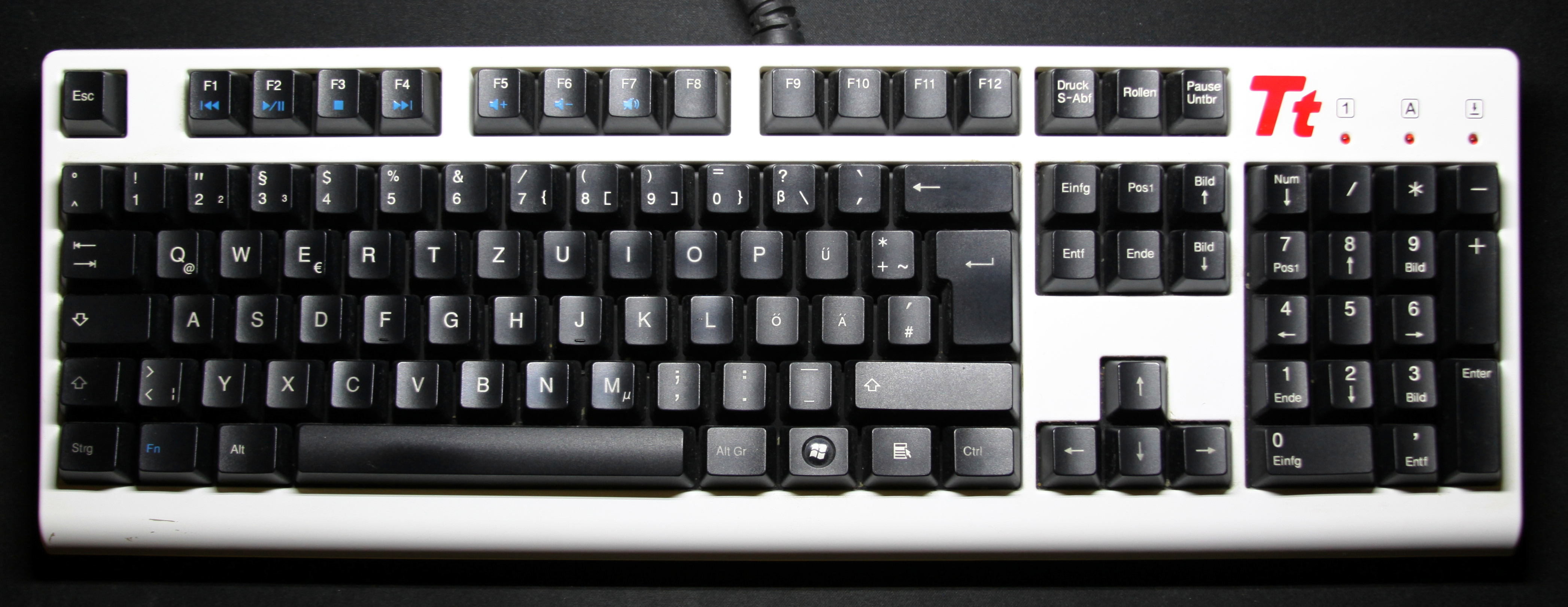 Thermaltake Meka G1 gaming keyboard with Cherry MX Black switches and German layout